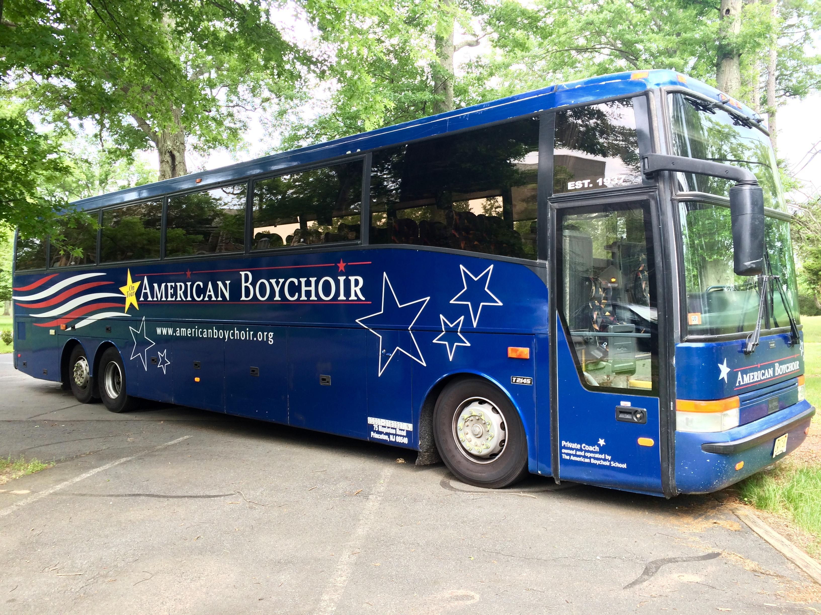 The bus of the American Boychoir School at St. Joseph's Seminary of Princeton, New Jersey (actually located in Plainsboro, New Jersey but with a Princeton address)